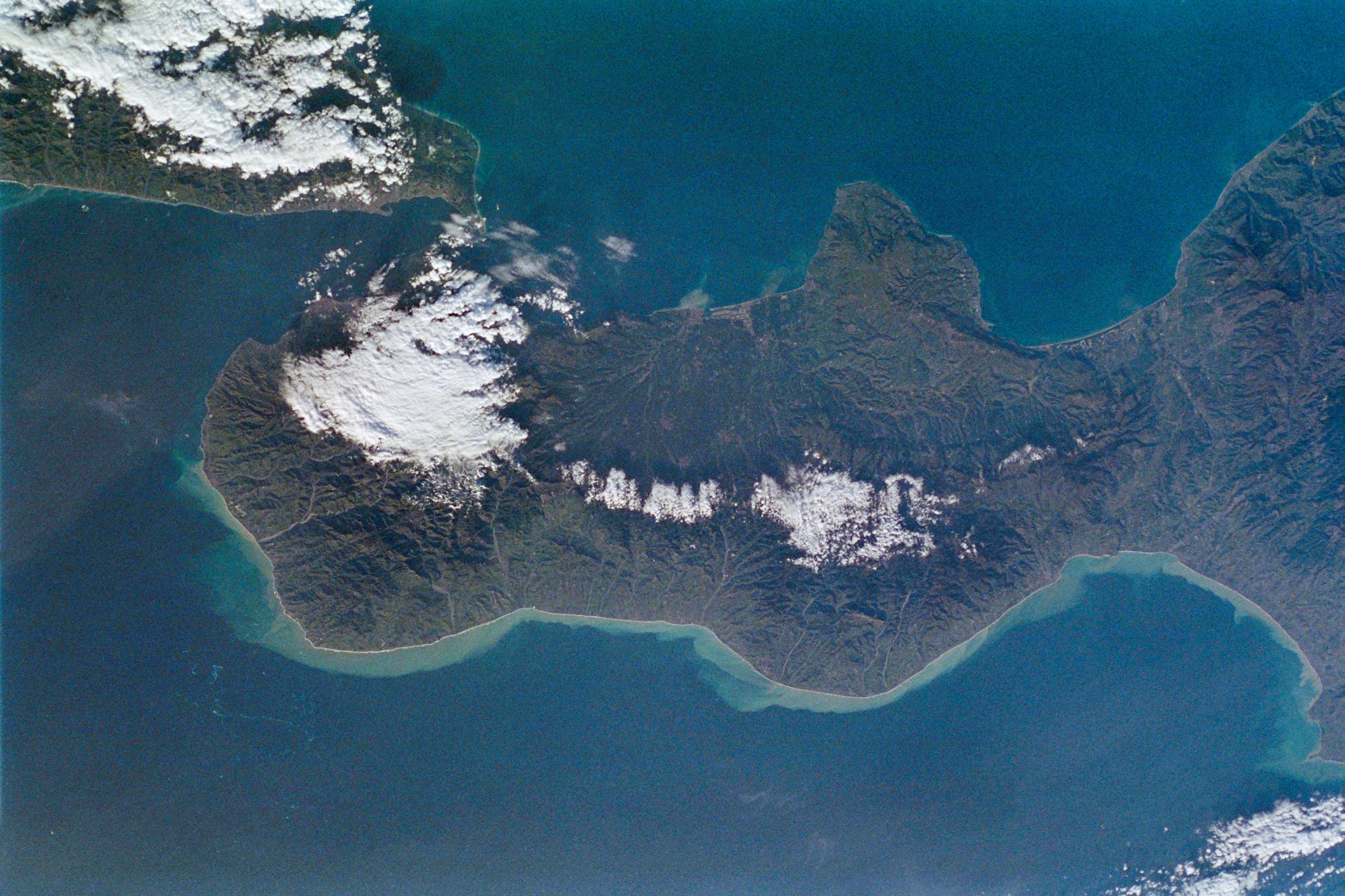 This view featuring the “toe” of the “boot” of Italy was photographed by an STS-107 crewmember on board the Space Shuttle Columbia. EDITOR’S NOTE: On February 1, 2003, the seven crewmembers were lost with the Space Shuttle Columbia over North Texas. This picture was on a roll of unprocessed film later recovered by searchers from the debris.